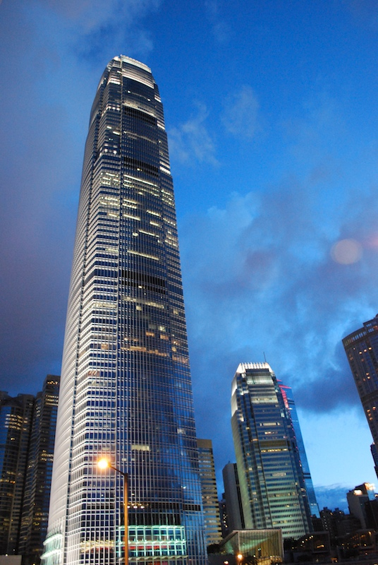 IFC Towers in Hong Kong - view from street